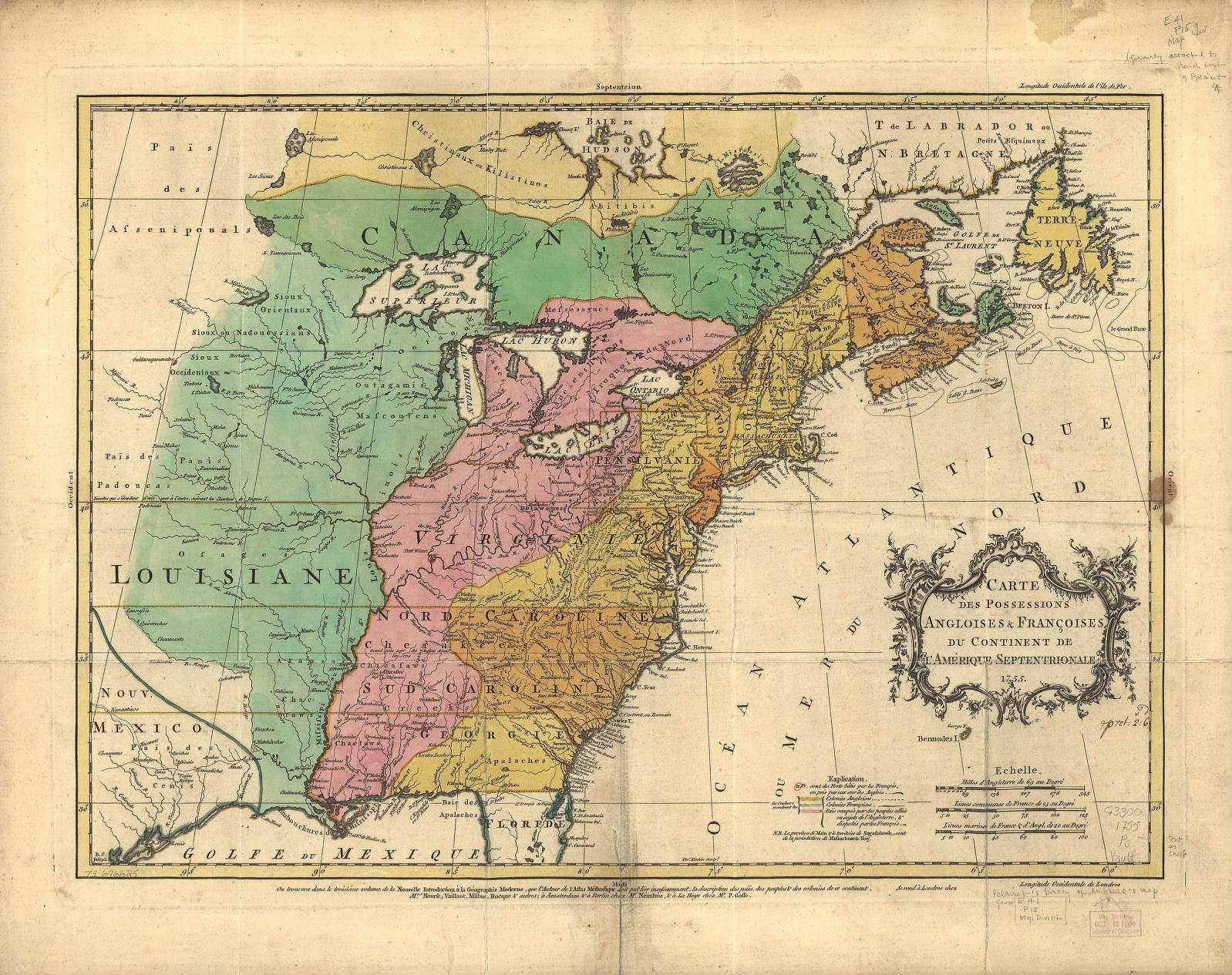 Original caption: “A NEW AND ACCURATE MAP OF NORTH AMERICA, (WHEREIN THE ERRORS OF ALL PRECEDING BRITISH, FRENCH AND DUTCH MAPS RESPECTING THE RIGHTS OF GREAT BRITAIN, FRANCE & SPAIN, & THE LIMITS OF EACH OF HIS MAJESTY'S PROVINCES, ARE CORRECTED.) Humbly inscribed... By his most obliged, most obedient and very humble servant, Huske. Tho: Kitchin sculpt. The map (McCorkle #755.16, Seller & van Ee #67) is from The Present State of North America by John Huske, and also appeared in a 1760 book by William Douglass. The coverage extends from Newfoundland to Florida, with an inset of the Hudson Bay area. Pennsylvania extends above 42 degrees and has an irregular western boundary that is the mirror image of the eastern. Illustrated in Fite & Freeman #48. This image is from the Library of Congress.”